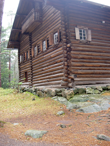 Pertinotsa farmhouse, Seurasaari Open Air Museum, Helsinki. The building has been transferred to the museum from Karelia, east Finland.